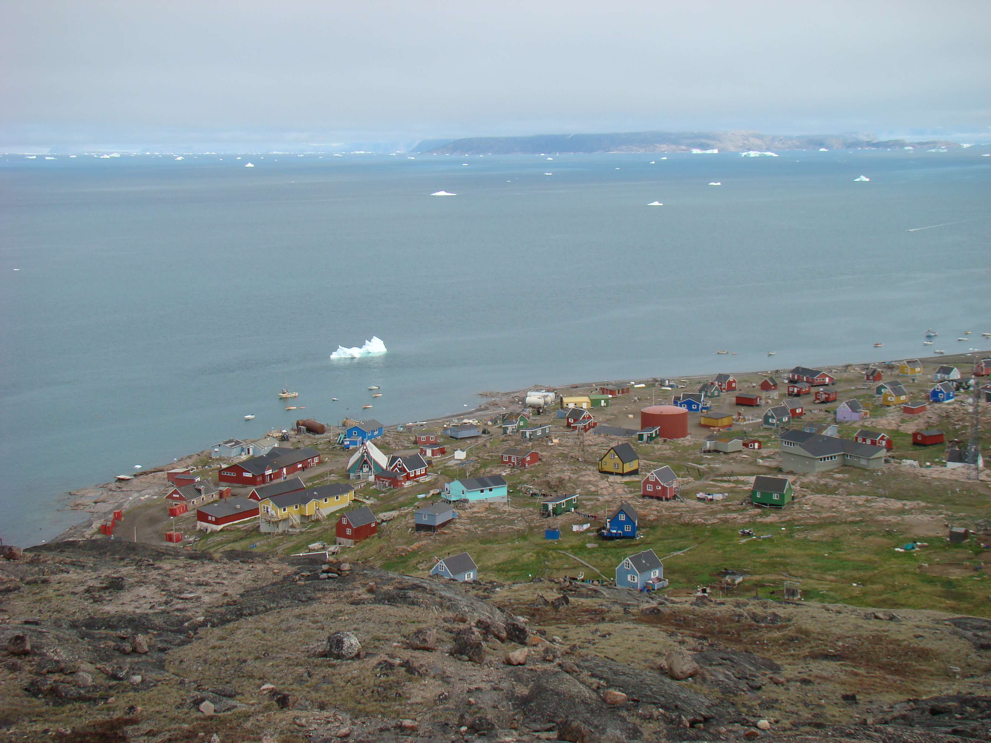 An overview of Qaarsut, Greenland.